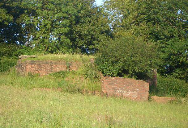 Pill box built in about 1940 north east of Chew Magna, Somerset to house RAF staff operating the decoy fires intended to deflect enemy bomber aircraft from bombing Bristol. The same pill box as File:Chew Magna WWII decoy pill box - 1.JPG.